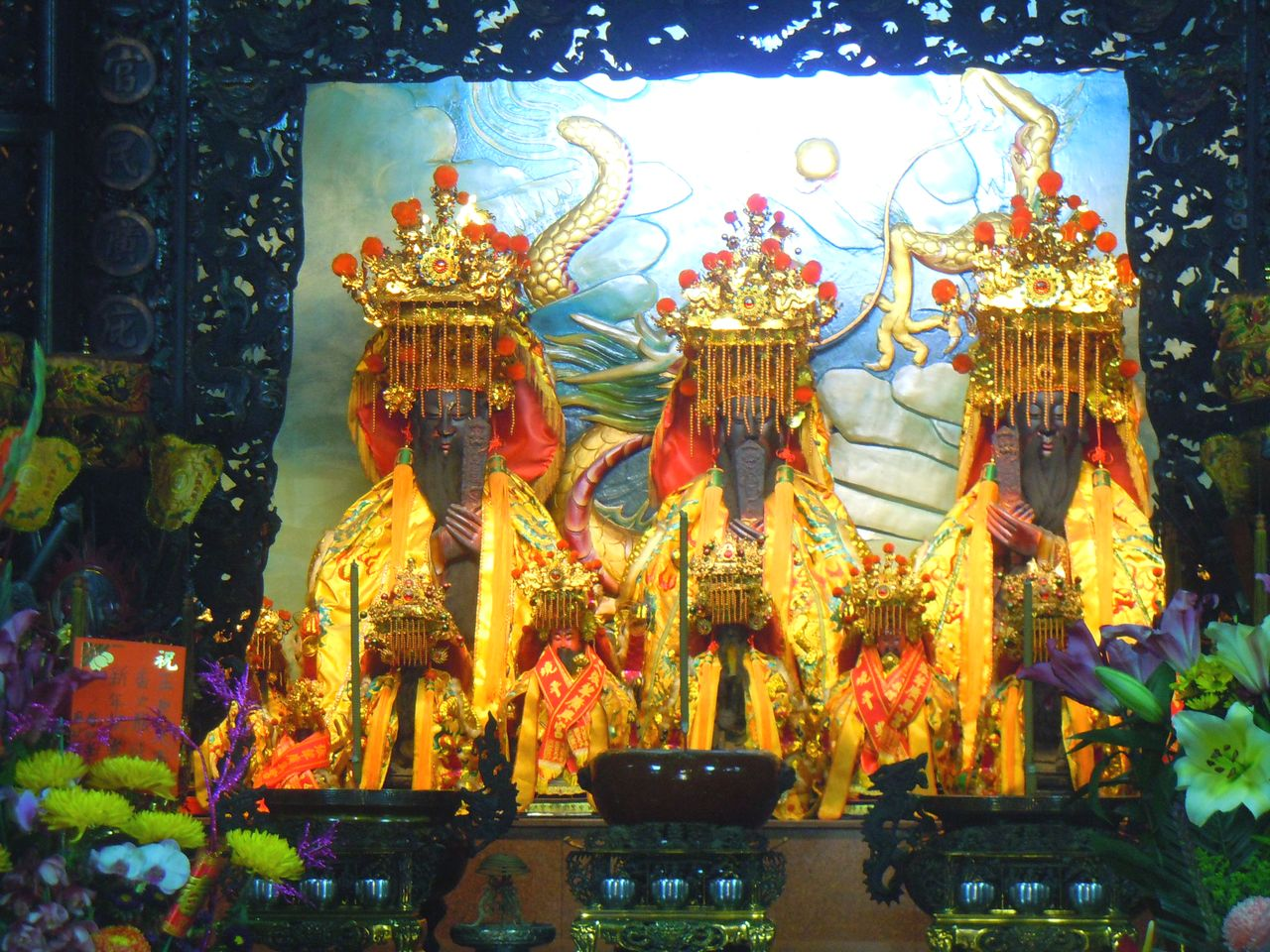 中文(繁體):陳平庄紫微宮：位於臺中市北屯區中清路二段568號。